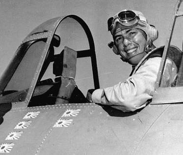 US Navy ace Elbert Scott McCuskey (VF-6, aircraft carrier USS Enterprise)